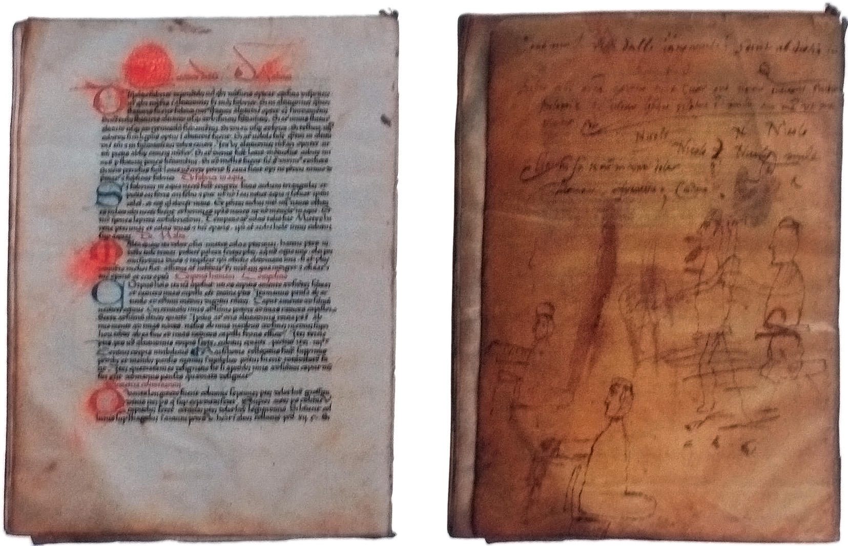 Manuscript of Vitruvius; parchment dating from about 1390; the Wolbert H.M. Vroom Collection, Amsterdam (on exhibition in Brussels)